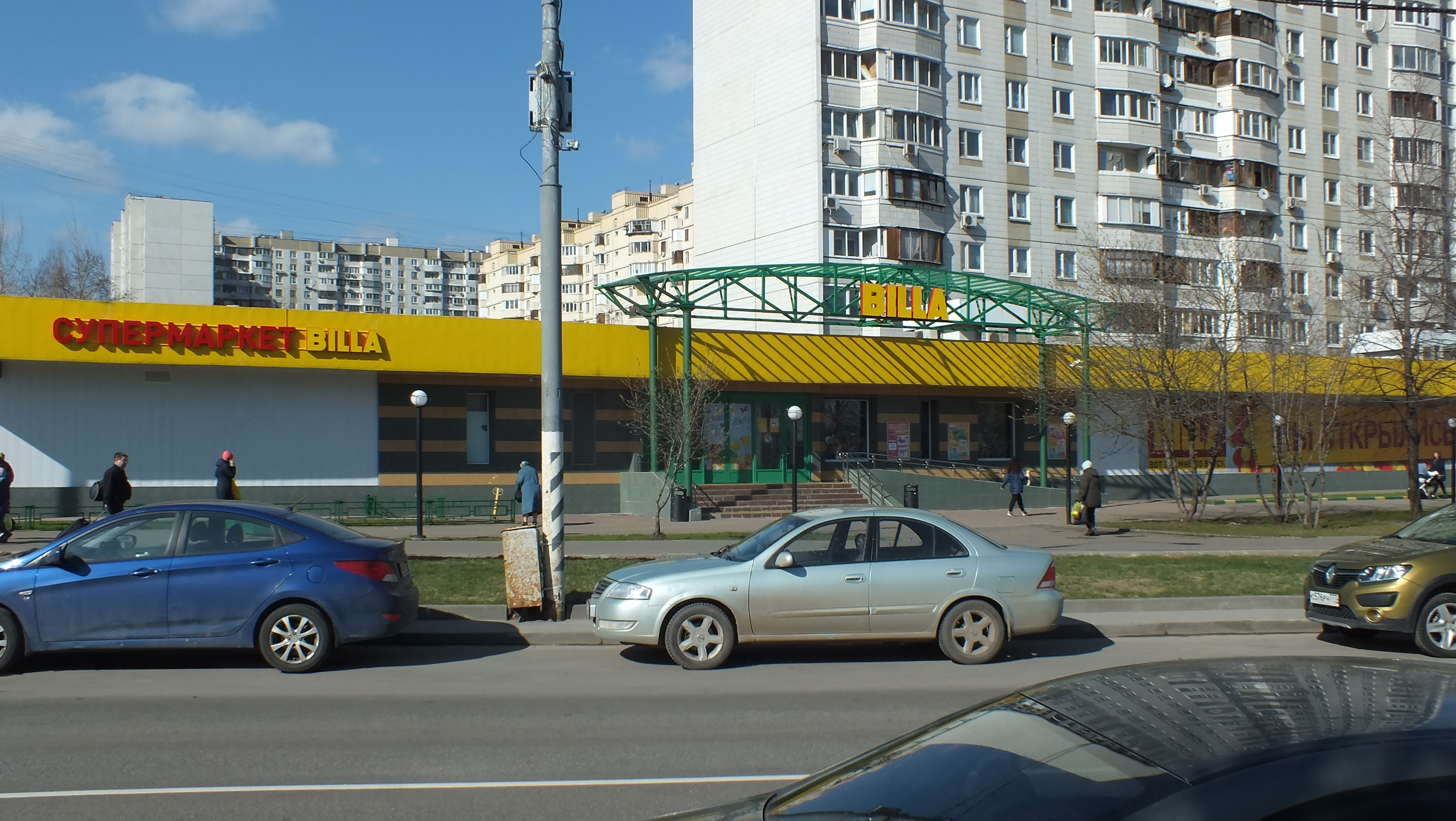 Billa supermarket in Moscow in Brateyevo District. The supermarket opened on April 6, 2017.